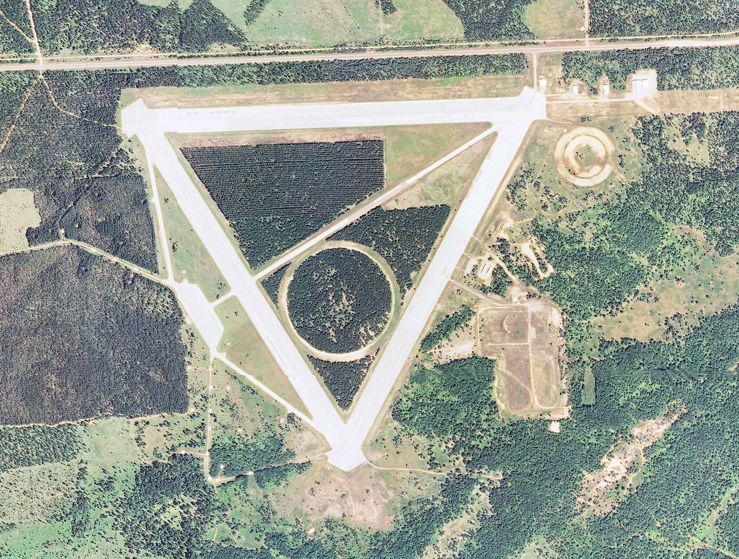 USGS digital orthophoto of Raco Army Airfield in Michigan